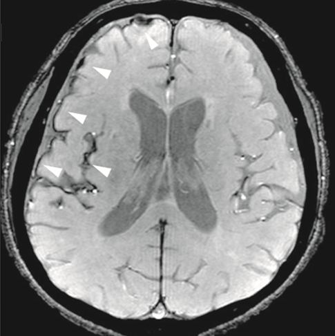 Enhanced gradient echo effective T2 (T2*) weighted angiography (ESWAN) image of the brain of a 54-year-old man who experienced a traumatic brain injury with right frontotemporal SAH (Fisher grade 4) with bilateral frontal contusions and intracerebral hematoma. This follow-up MRI (1.5T) image was obtained 26 weeks following the head injury. The axial ESWAN image displays a rim of hypointensity (arrowheads), with hemosiderin deposits forming along the cerebral convexity.